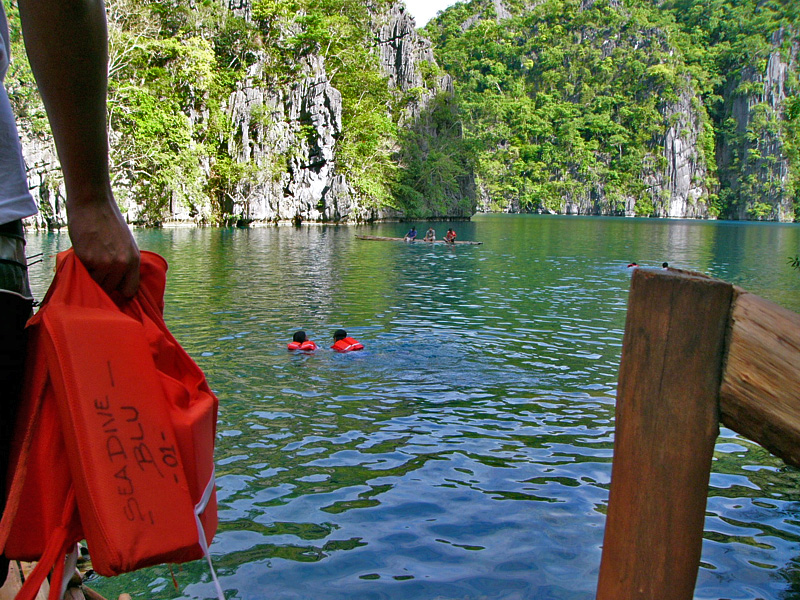 Kayangan Lake (one of the cleanest lakes in the Philippines) is considered a sacred place by the Tagbanua tribe of Coron Island, Philippines.